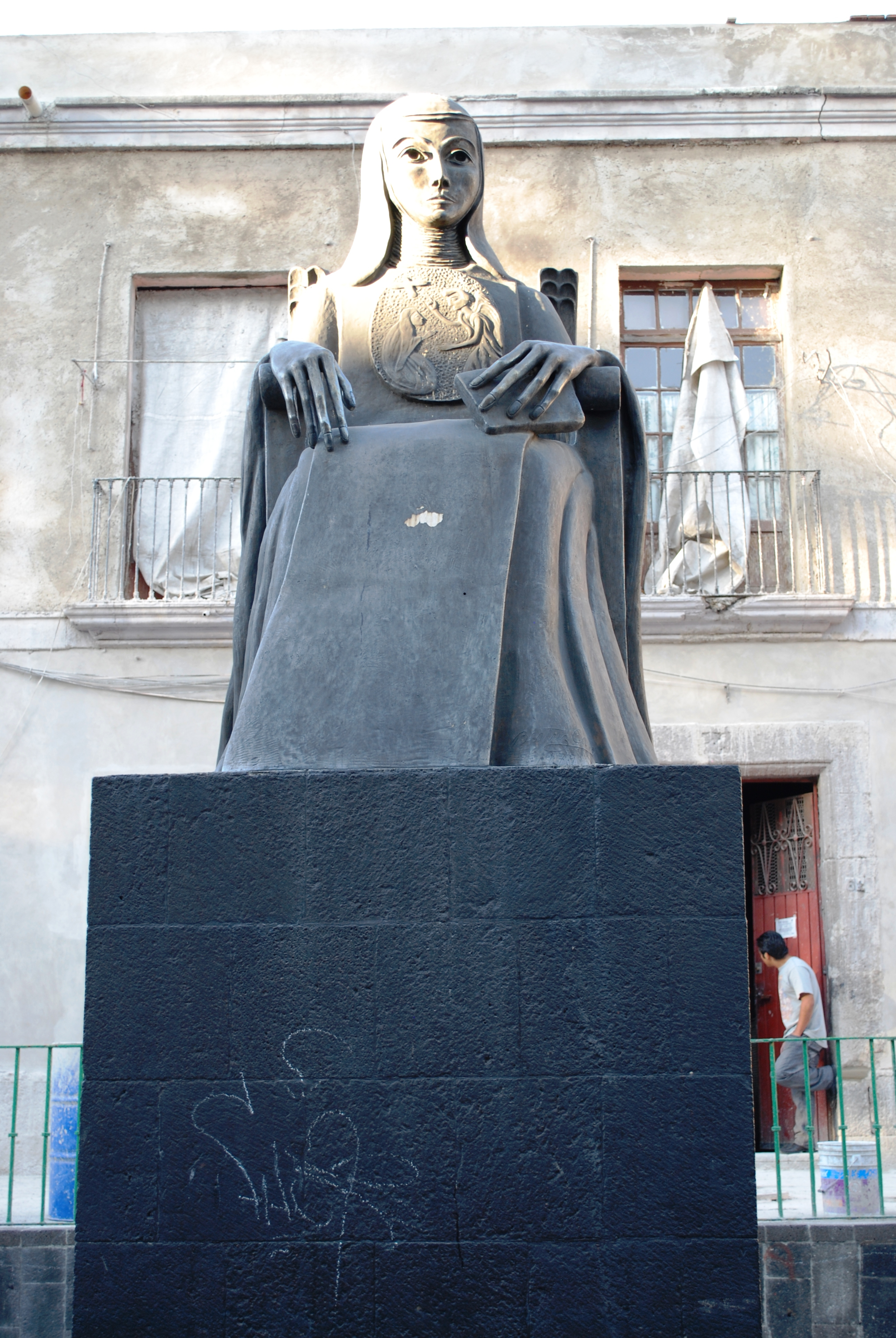 Statue of Sor Juana outside the Universidad del Clautro de Sor Juana in Mexico City